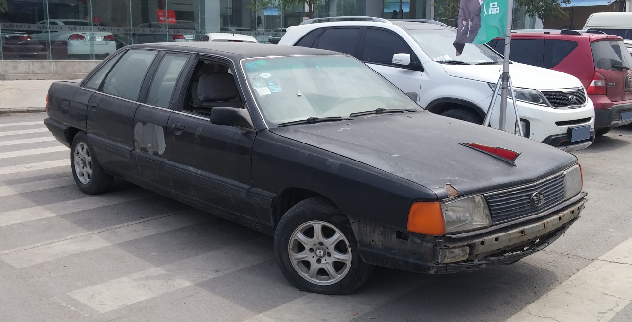 Hongqi CA7228 photographed in Zhengzhou, Henan province, China.